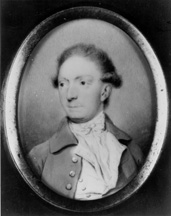 Portrait of Senator William Grayson of Virginia, from here.